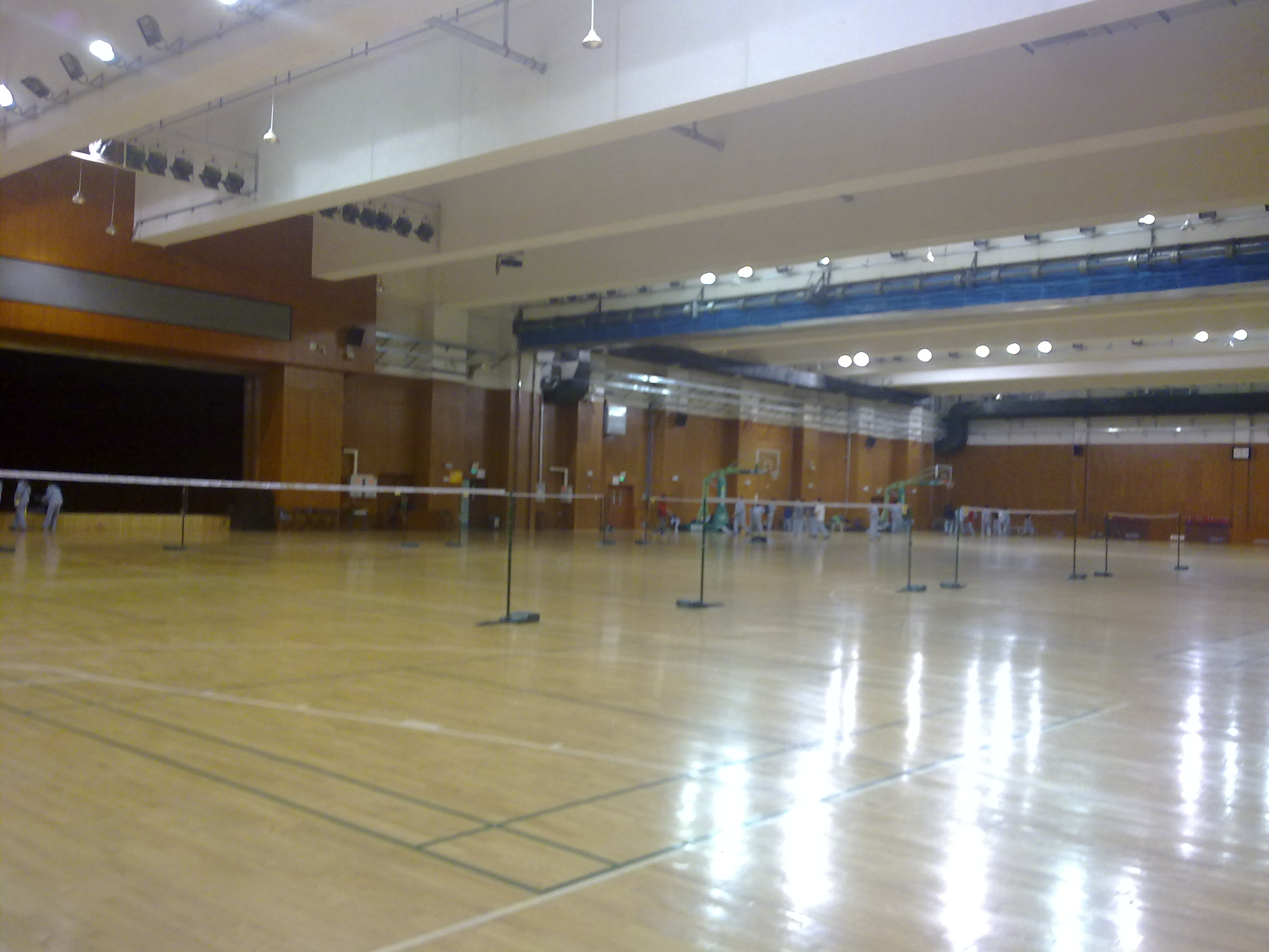 The underground basketball stadium in Beijing No.8 High School.